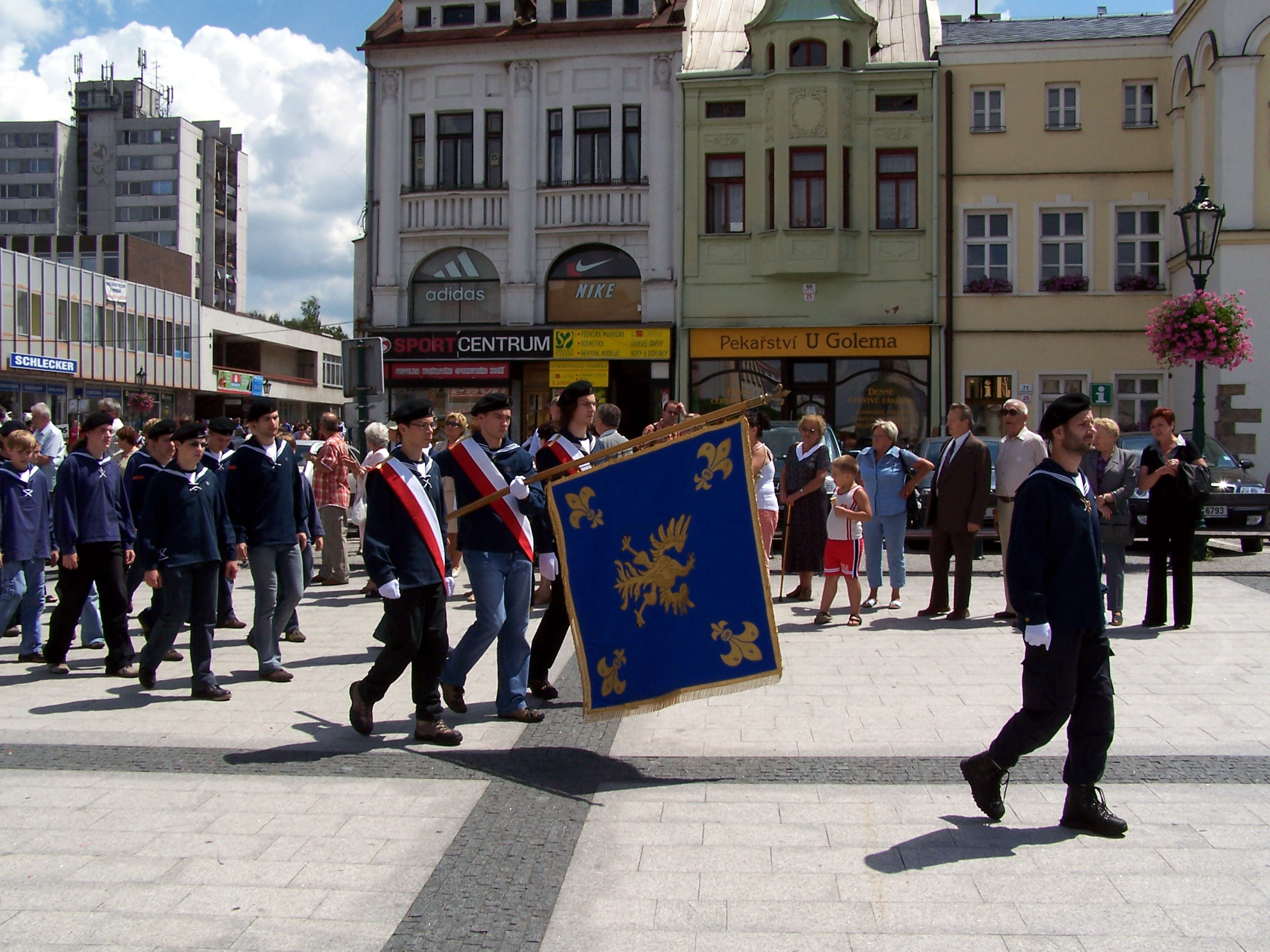 Polish scouts during the parade at the beginning of the Jubileuszowy Festiwal PZKO 2007 in Karwina